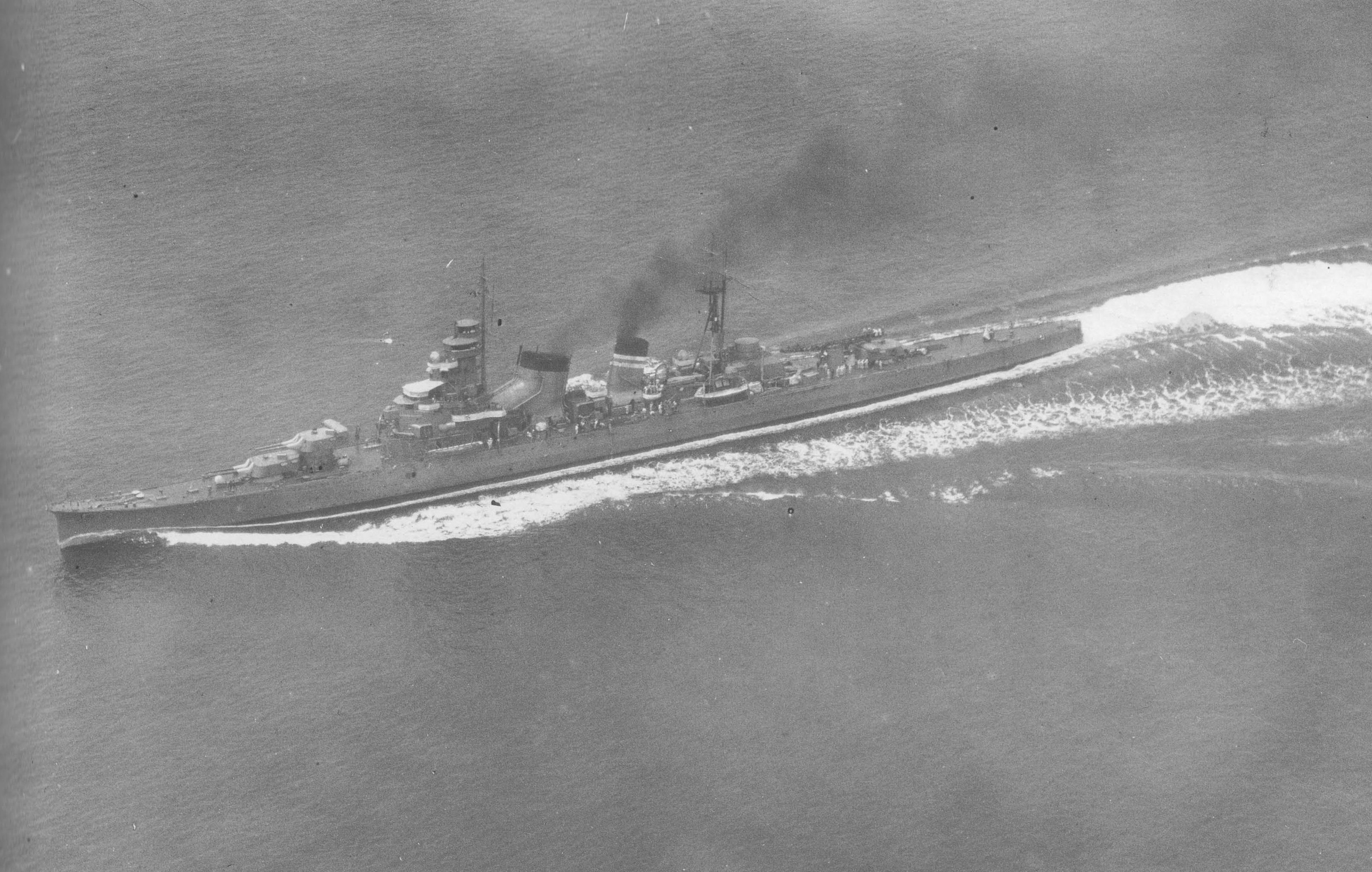 Imperial Japanese Navy heavy cruiser Aoba undergoes testing after installation of the aircraft catapult (visible behind and above the aft main gun turret).